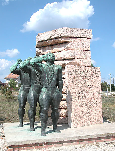 Memos Makris, Αγαμέμνων Μακρής, Μέμος Μακρής, Makrisz Agamemnon: Memorial sculpture